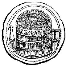 738 woodcuts illustrating the work A Dictionary of Roman Coins, Republican and Imperial (1889). To identify a coin please look at the filename to identify a page number, and check the Dictionary on numiswiki